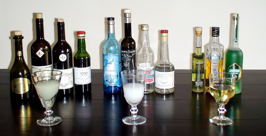 A group of modern Absinthe. Left vertes, middle blanches, right bohemian-style and a prepared glass in front of each.